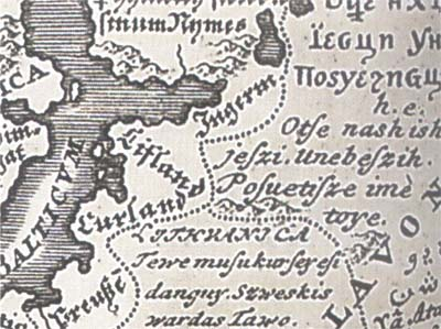 Lithuanian language in the Europa Polyglotta map by Gottfried Hensel (1741). Tewe musu kursey esi danguy. Szweskis wardas Tawo ("Our Father, which art in Heaven. Hallowed be thy Name.") The text is taken from the unfinished Lithuanian Bible, translated at Oxford by Samuel Bogusław Chyliński and printed in London in 1660 (the first complete Lithuanian Bible appeared only in 1755, in Königsberg).